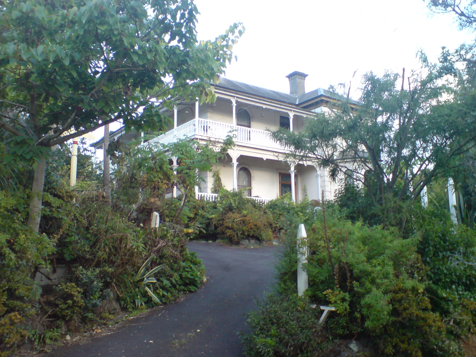 An old heritage home in Grafton, Auckland City, New Zealand. Possibly the 'Huntly House'.